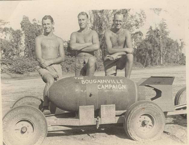 Deliver to addressee only